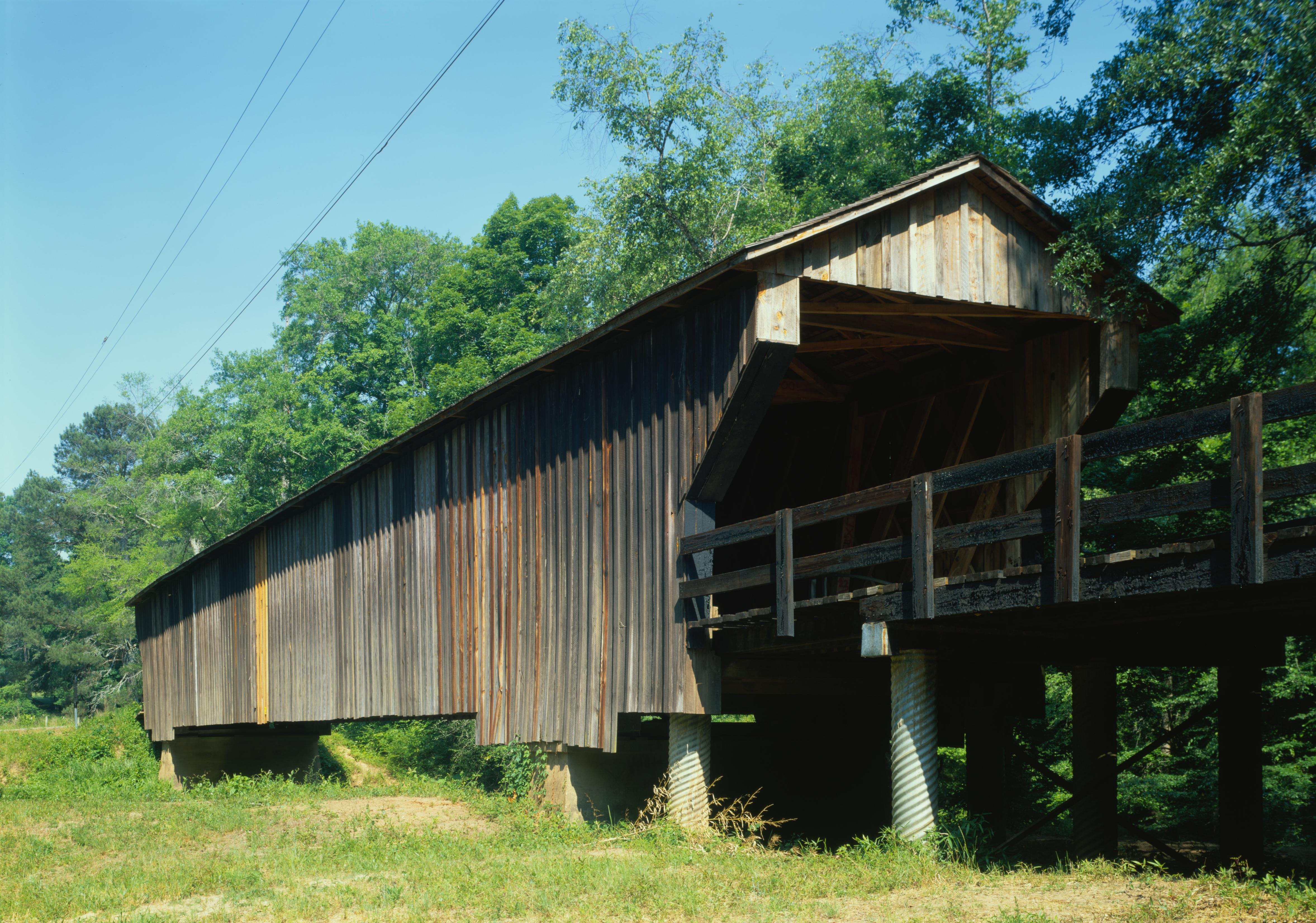 Red Oak Creek Bridge, Spanning (Big) Red Oak Creek, Huel Brown Road (Cov, Woodbury vicinity (Meriwether County, Georgia))